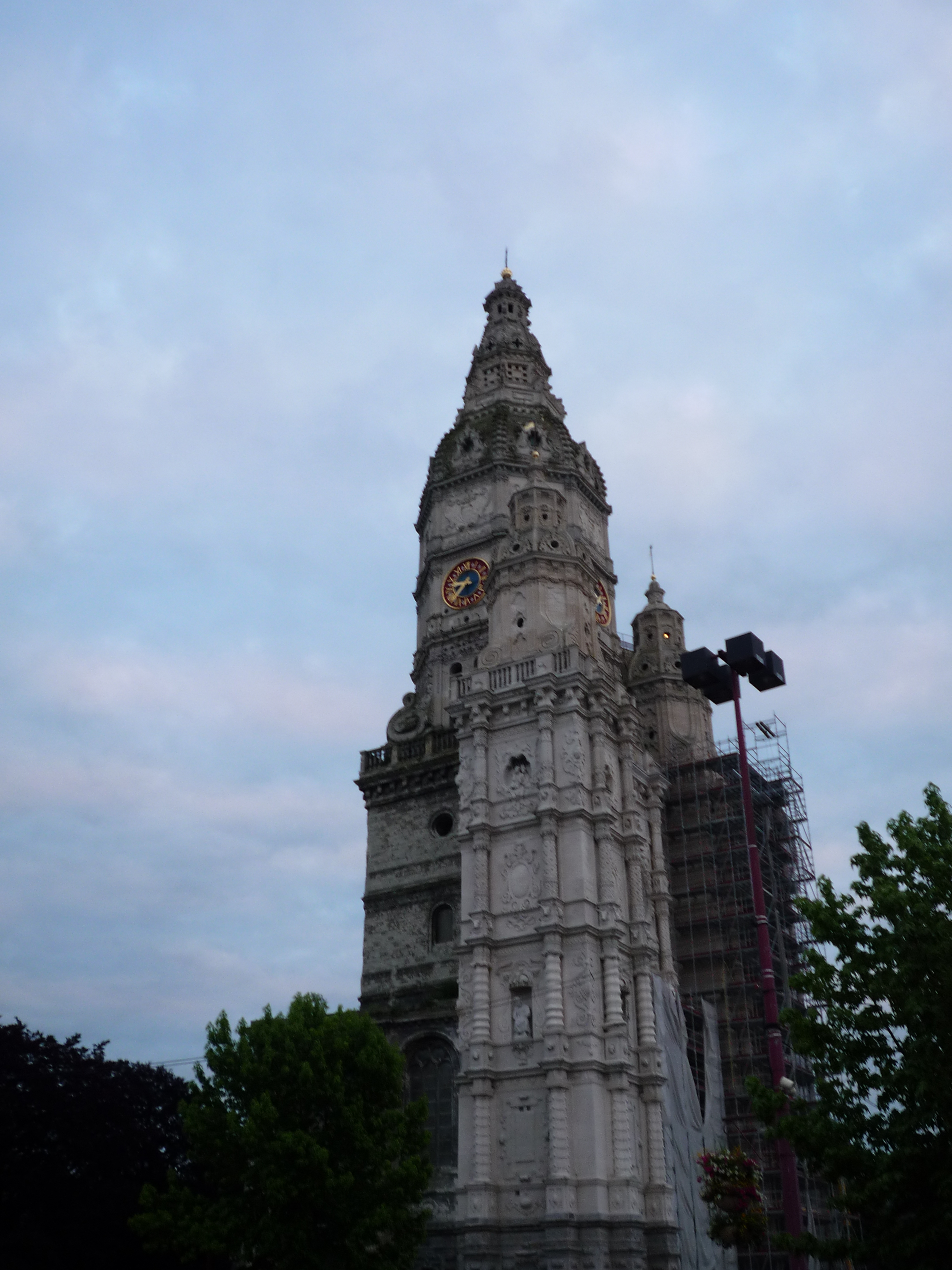 Saint-Amand-les-Eaux, France.